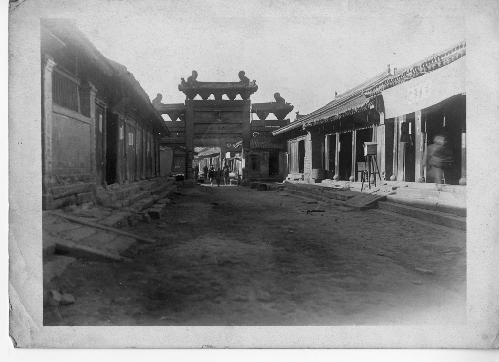 Creator: Sowerby, Arthur de Carle 1885-1954 Subject: Chong shan si (Taiyuan, Shanxi Sheng, China) Type: Black-and-white photographs Topic: Chinese China--Description and travel Local number: SIA RU007263 [SIA2008-3113] Cite as: RU 7263 - Arthur de Carle Sowerby Papers, 1904-1954 and undated, Smithsonian Institution Archives Place: Shanxi Sheng (China) Persistent URL:Link to data base record Repository:Smithsonian Institution Archives View more collections from the Smithsonian Institution.